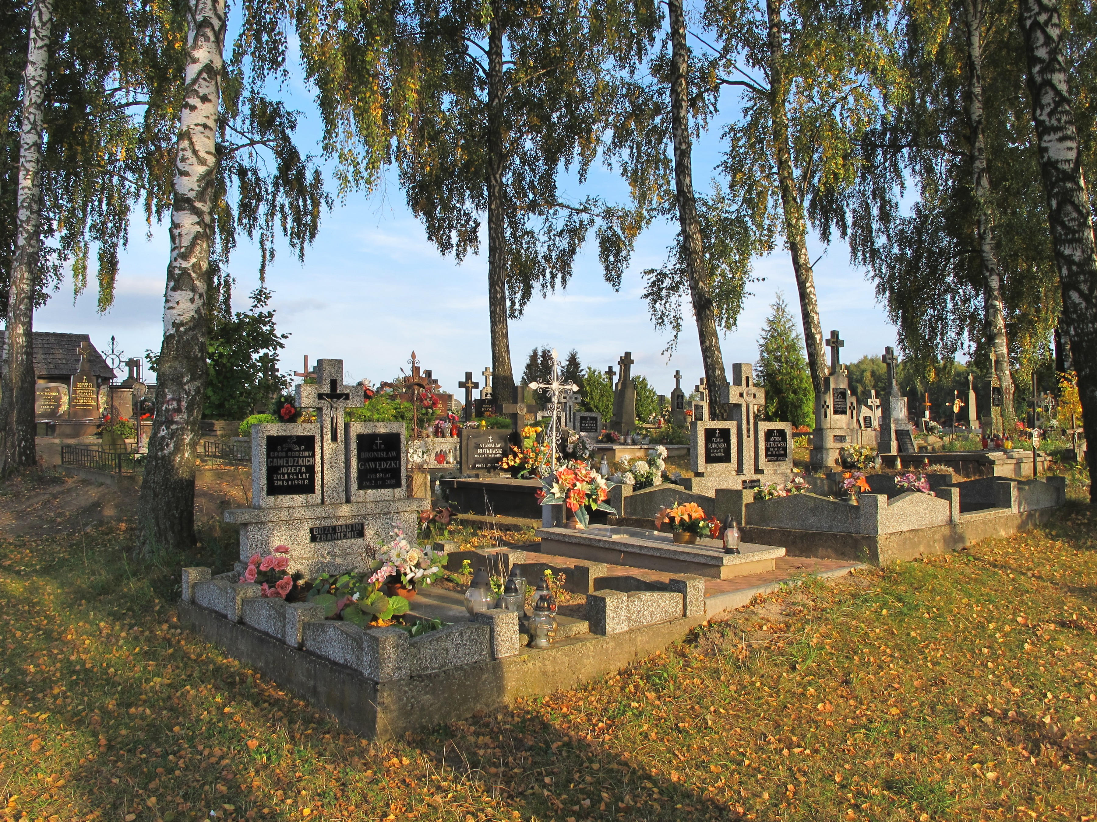 Catholic cemetery in Jaświły, gmina Jaświły, podlaskie, Poland